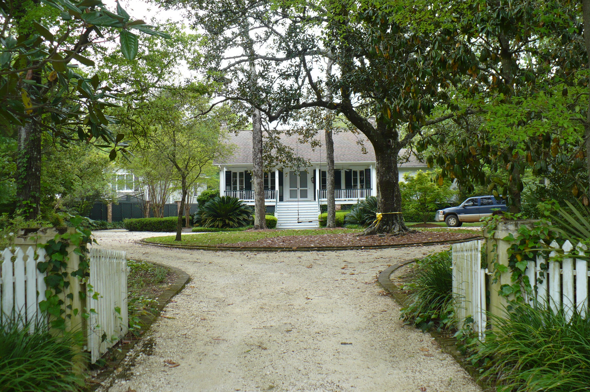 Collins-Robinson House (c. 1830s) at 56 Oakland Avenue in Mobile, Alabama.